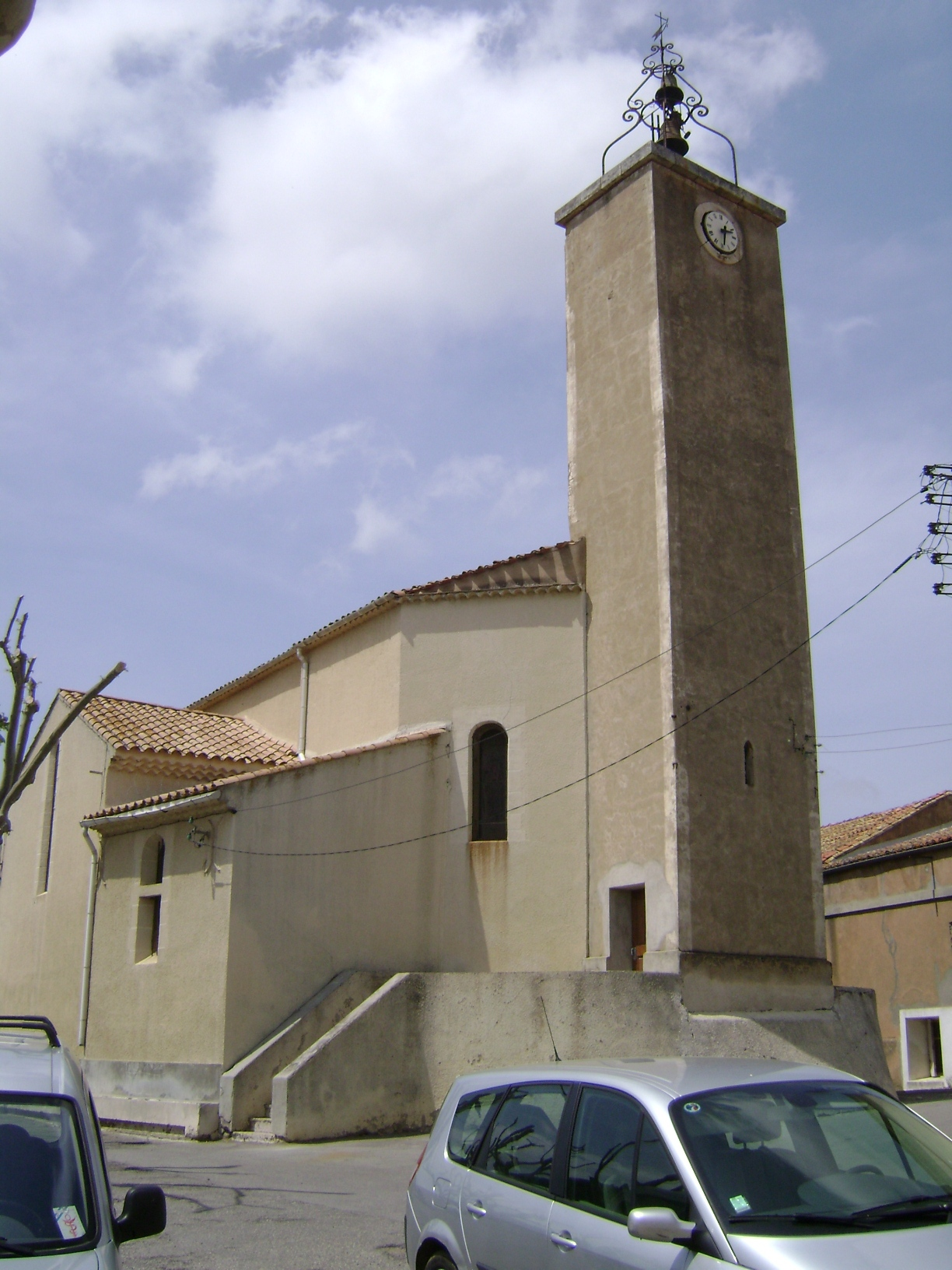 Church (12th century), Saint-André-de-Roquelongue, Aude, France